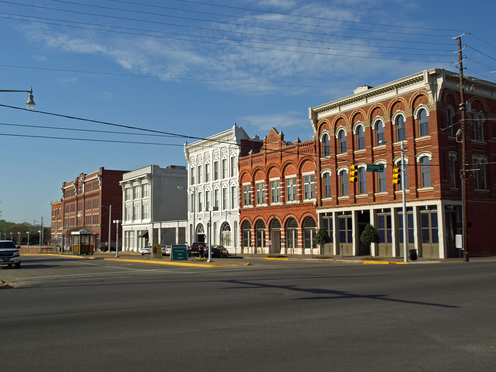 200 block of North Commerce Street, part of the Lower Commerce Street Historic District in Montgomery, Alabama